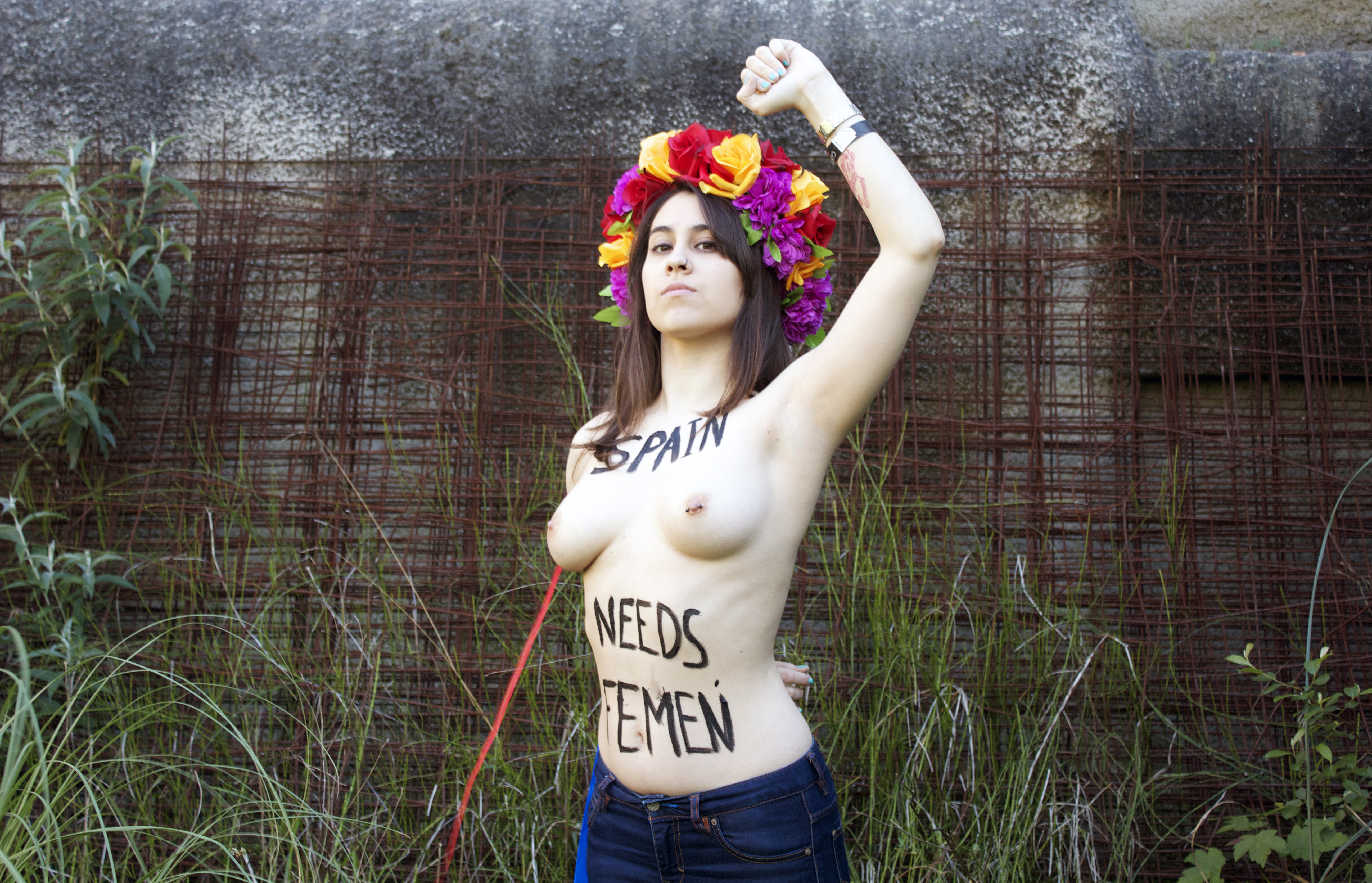 Lara Alcázar from femen spain